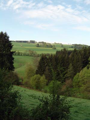 Taken on the way to Stavelot Wannes